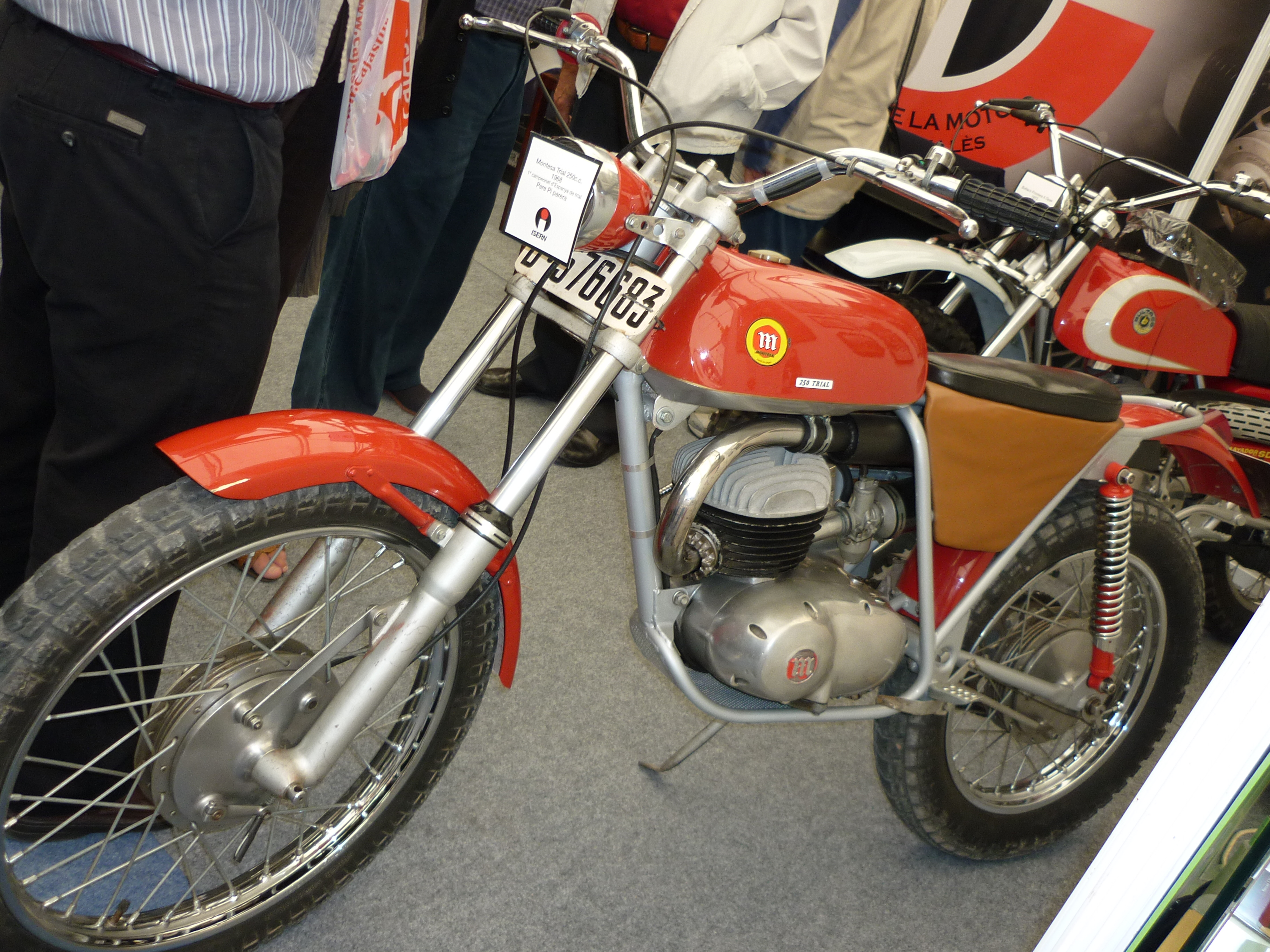 Montesa 250 Trial, the forerunner of the famous Cota 247. Pere Pi won the first Spanish Trials Championship in 1968, riding this bike.Exposed by Josep Isern at the FIMO (Mollet del Vallès, Catalonia, 1 to 3 October 2010)